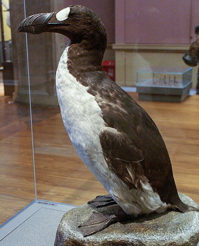 Crop of file in filename